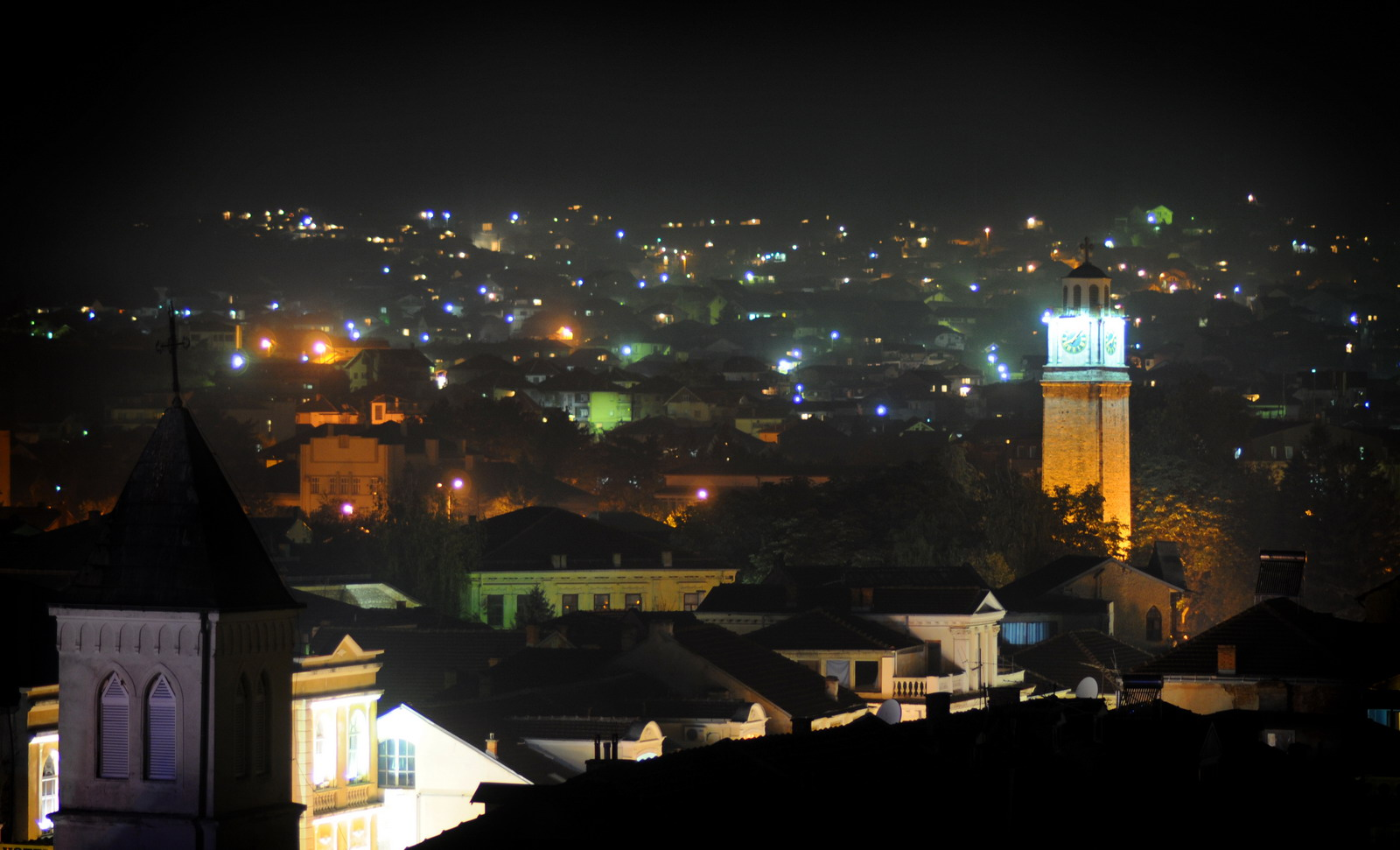 The Clock Tower of Bitola, known as Saat Kula (Macedonian: Саат кула), is a clock tower and one of the landmarks of the Macedonian city Bitola. The Clock tower in Bitola, unlike obsolete water towers which were built by the Austro Magjar empire, is a very practical monument aiding people with the time of day.[1] According to the legends, even though the existence of the Clock Tower was mentioned before in the 1664 (17th century), present Clock Tower was built in the 1830s, in the same period when nearby, the Orthodox Church of St. Demetrious was built